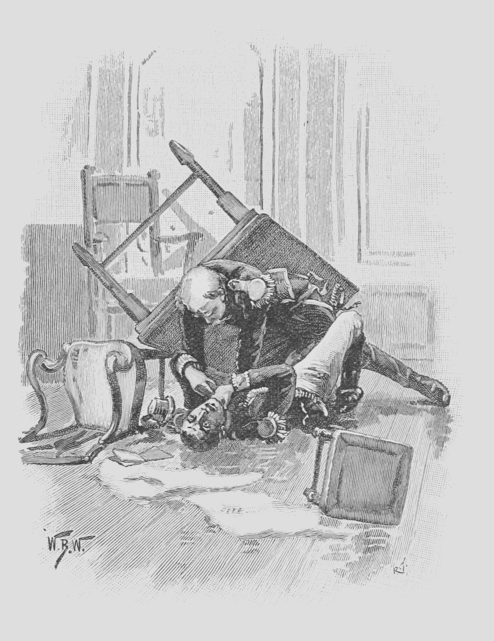 Plate of The Exploits of Brigadier Gerard